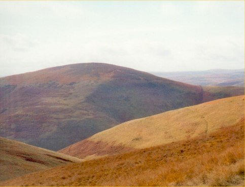 Mid Hope valley and Shillhope Law